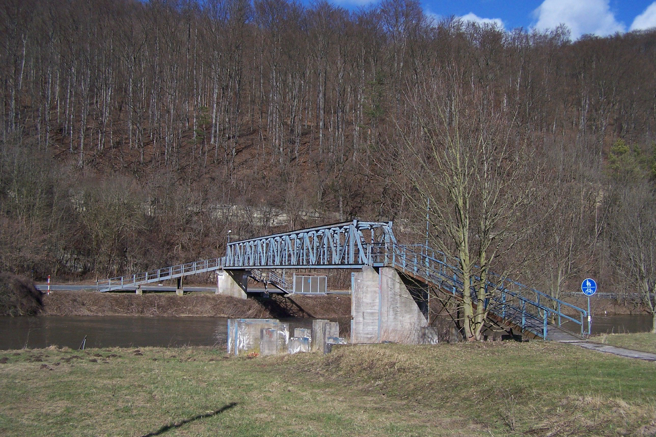 A bridge in Buchenau.